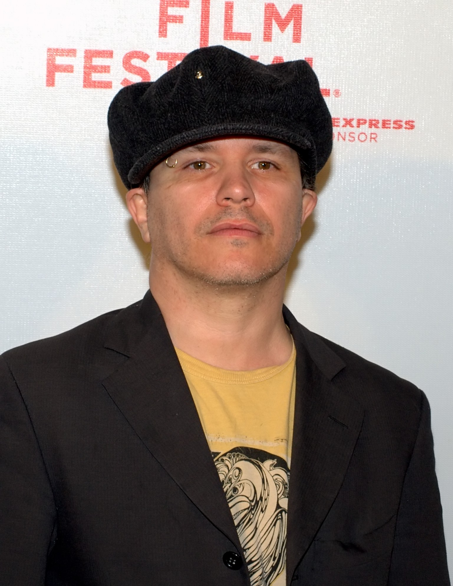 Olivier Dahan at Tribeca Film Festival 2010